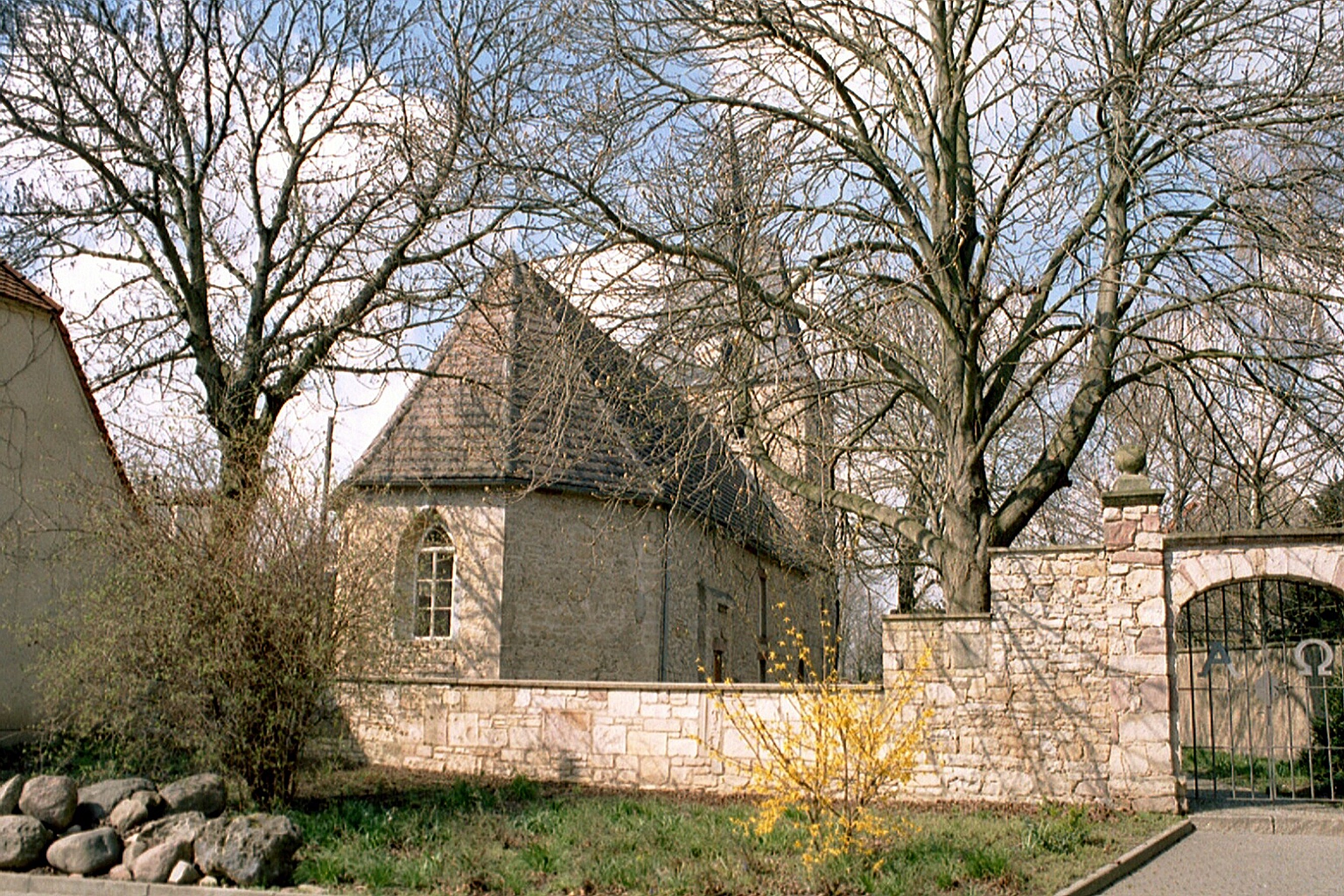 Schnellroda (Steigra), the village church